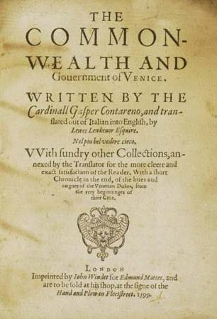 frontr page of Lewknor's the Commonwealth and Government of Venice